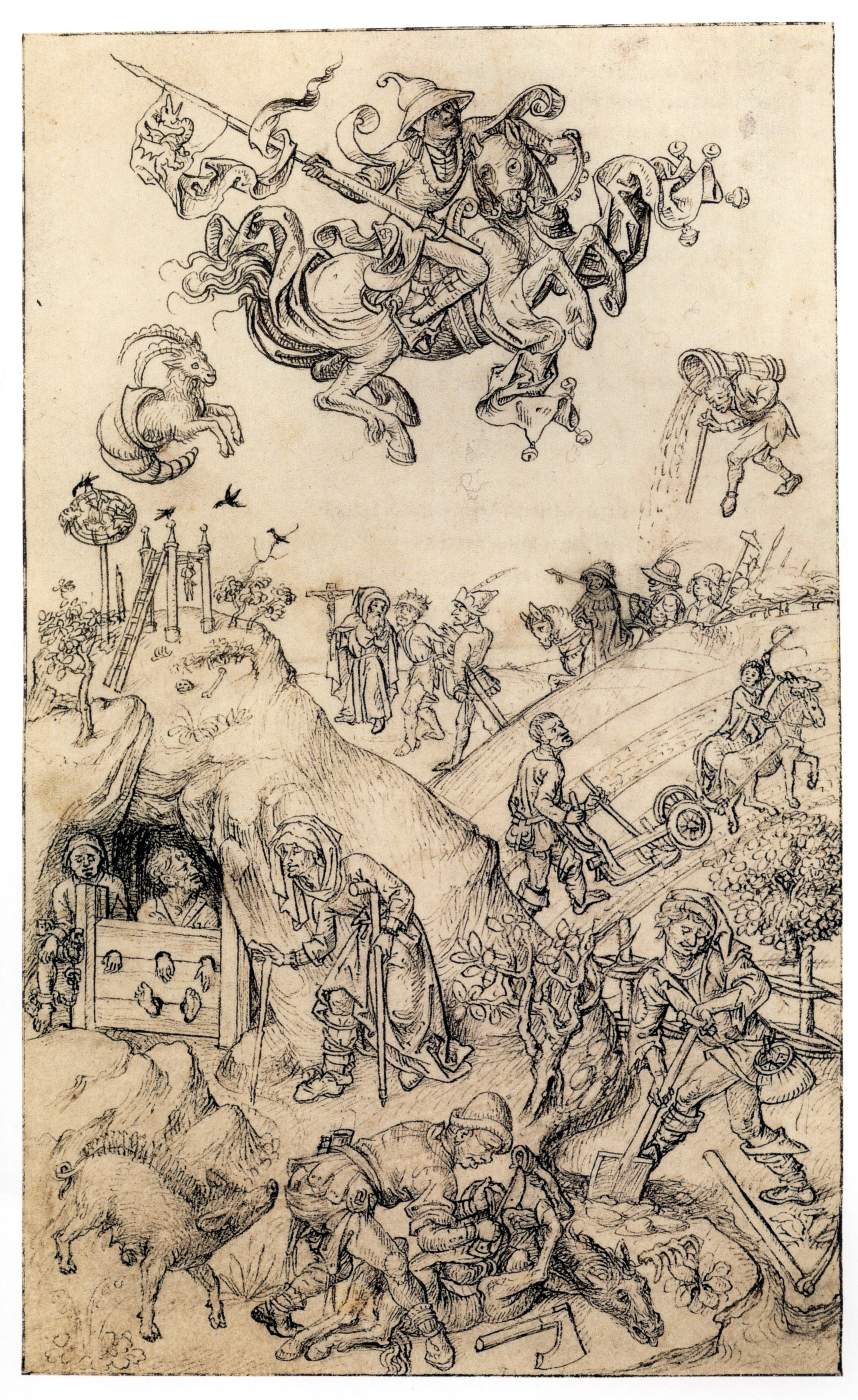 Mittelalterliches Hausbuch von Schloss Wolfegg Fol. 11r: Saturn und seine Kinder Master of the Housebook (fl. between 1475 and 1500 date QS:P,+1500–00–00T00:00:00Z/6,P1319,+1475–00–00T00:00:00Z/9,P1326,+1500–00–00T00:00:00Z/9) Alternative names Master of the House-Book, Master of the Amsterdam Cabinet, Master of 1480DescriptionGerman painter, draughtsman and engraverDate of birth/death 1450 1500Work periodbetween 1475 and 1500 date QS:P,+1500-00-00T00:00:00Z/6,P1319,+1475-00-00T00:00:00Z/9,P1326,+1500-00-00T00:00:00Z/9Work location Middle Rhine, Heidelberg (?), Mainz (?)Authority control : Q460300 VIAF: 79397502 ULAN: 500002780 WGA: MASTER of the Housebook GND: 118546961 RKD: 115714 creator QS:P170,Q460300